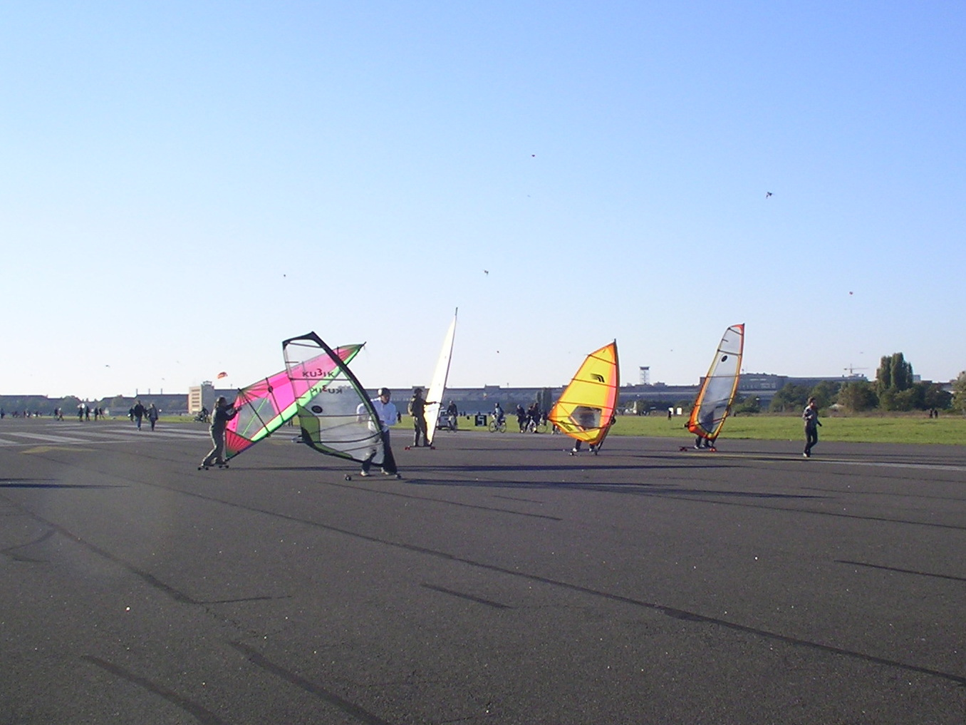 windskating, landsurfing at Tempelhofer Feld, Berlin, Germany